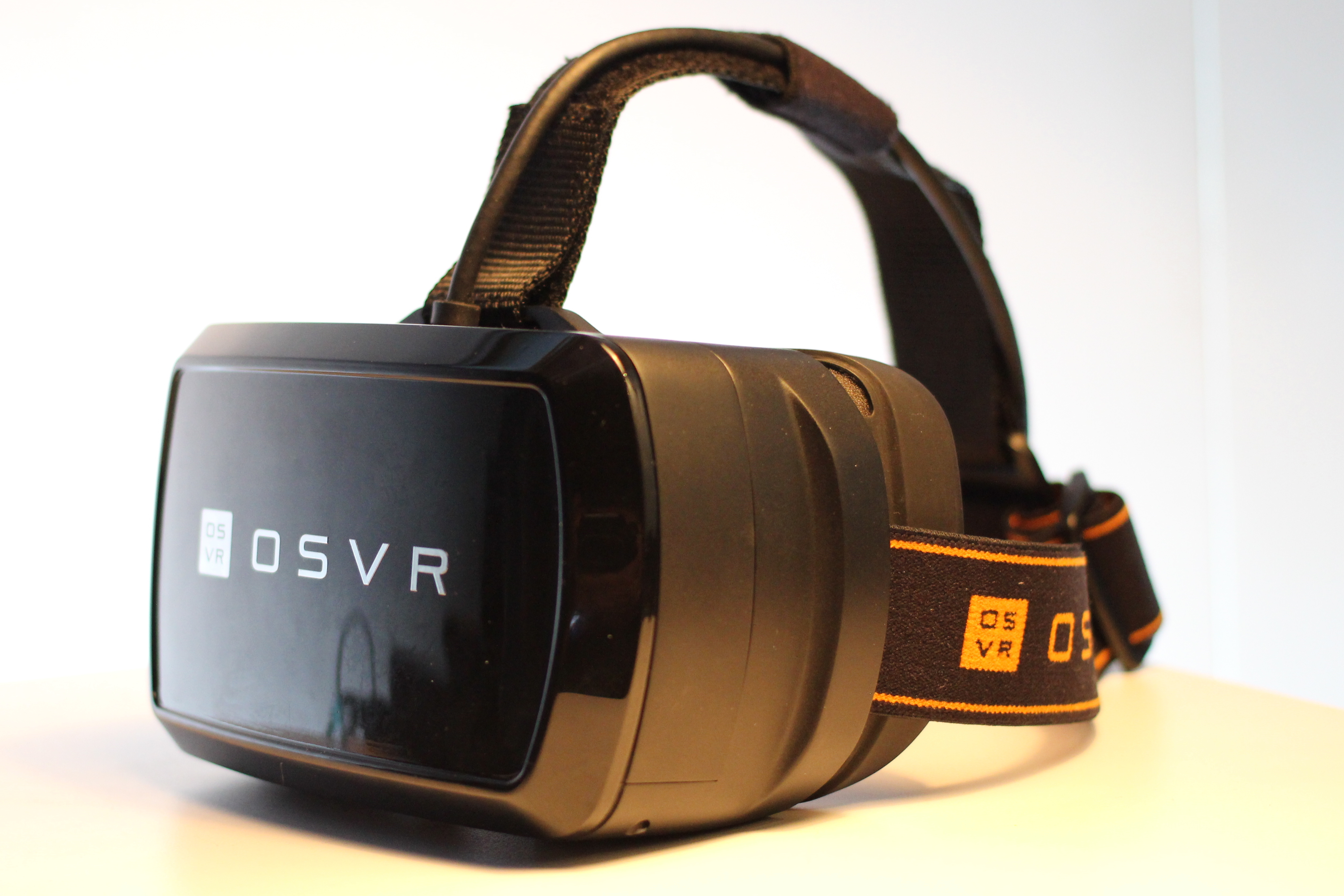 Razer OSVR Open-Source Virtual Reality for Gaming